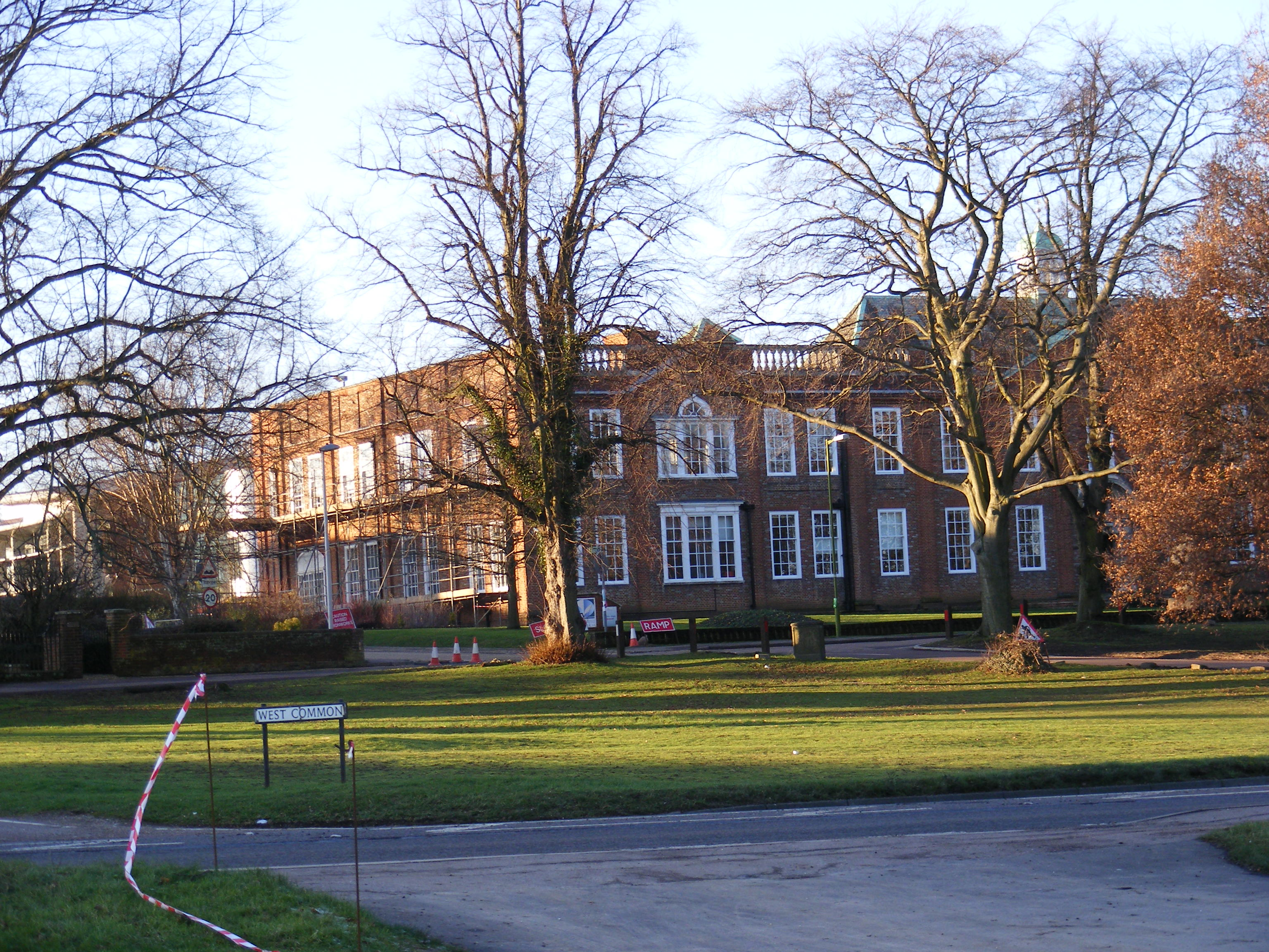 Rothamstead Research Centre Rothamsted_Experimental_Station